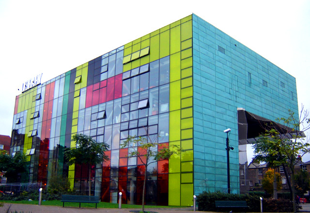 Peckham Library, Peckham, Southwark, London.